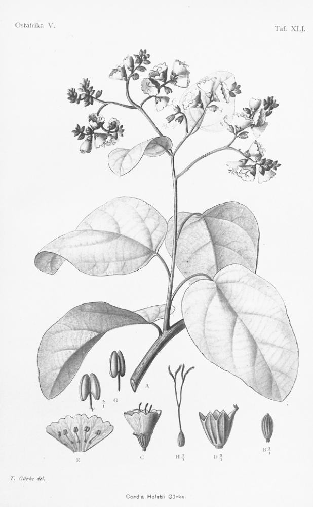 Illustration of Cordia africana (described as Cordia holstii)